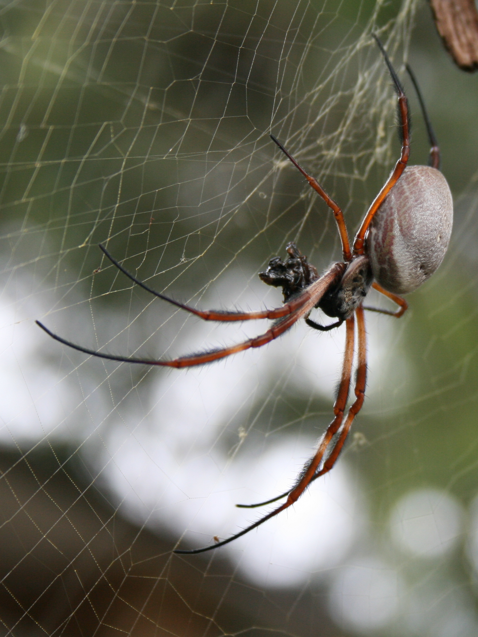 Golden orb spider (Nephila edulis) in a Sydney garden.